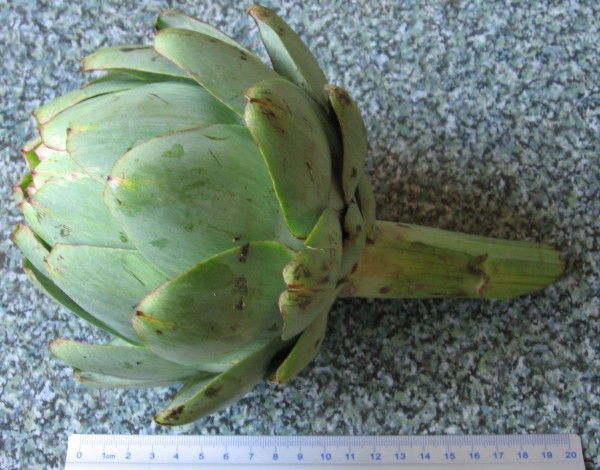 Artichoke